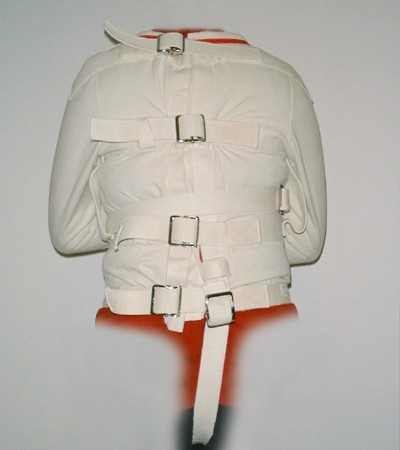 straitjacket white back view own photo